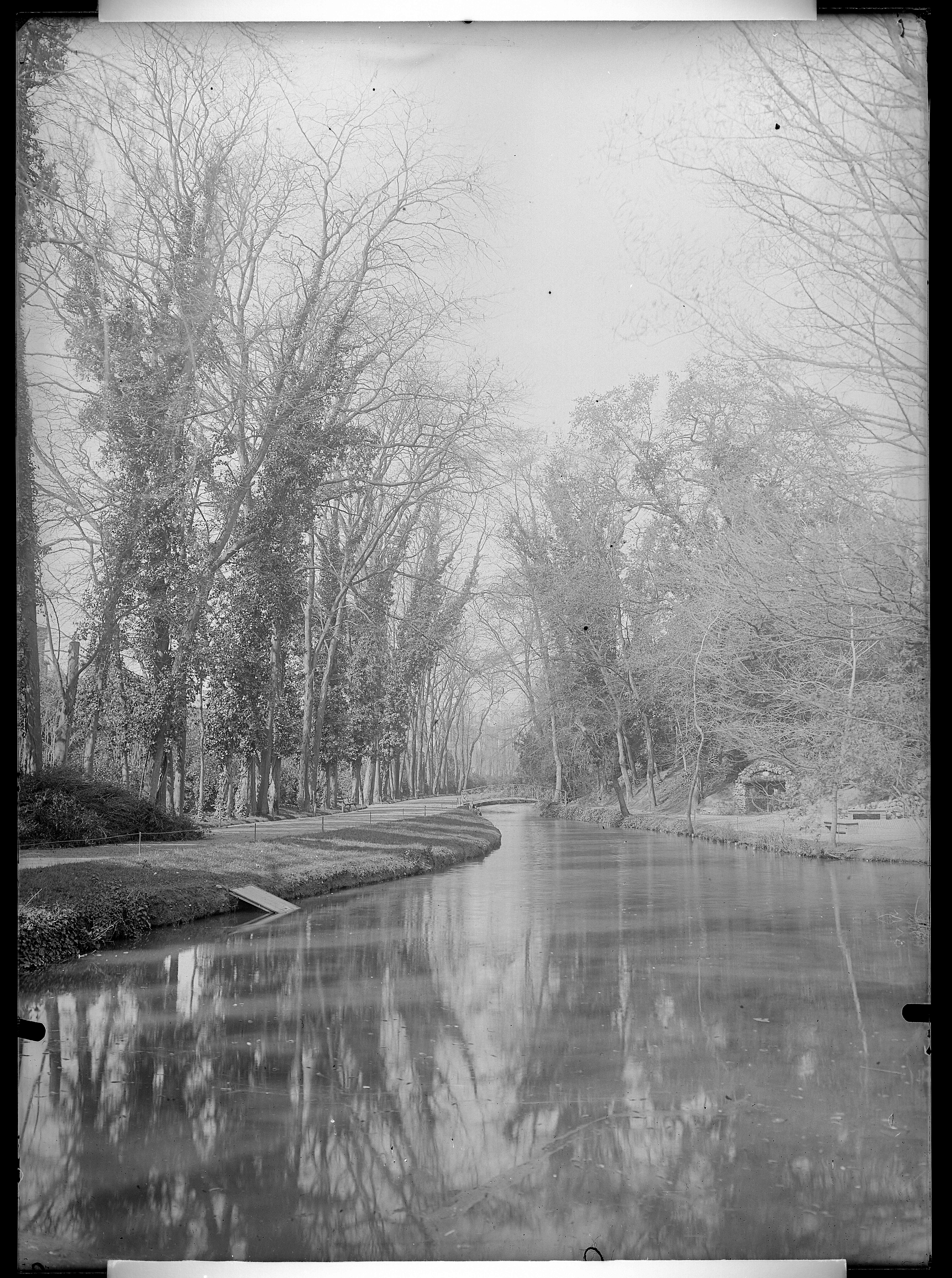 handwritten inscription of Eugène Trutat : " Toulouse : Jardin des plantes - canal avril 1898 anast. Turillon" Toulouse : Botanical garden - canal april 1898 anast. Turillon.